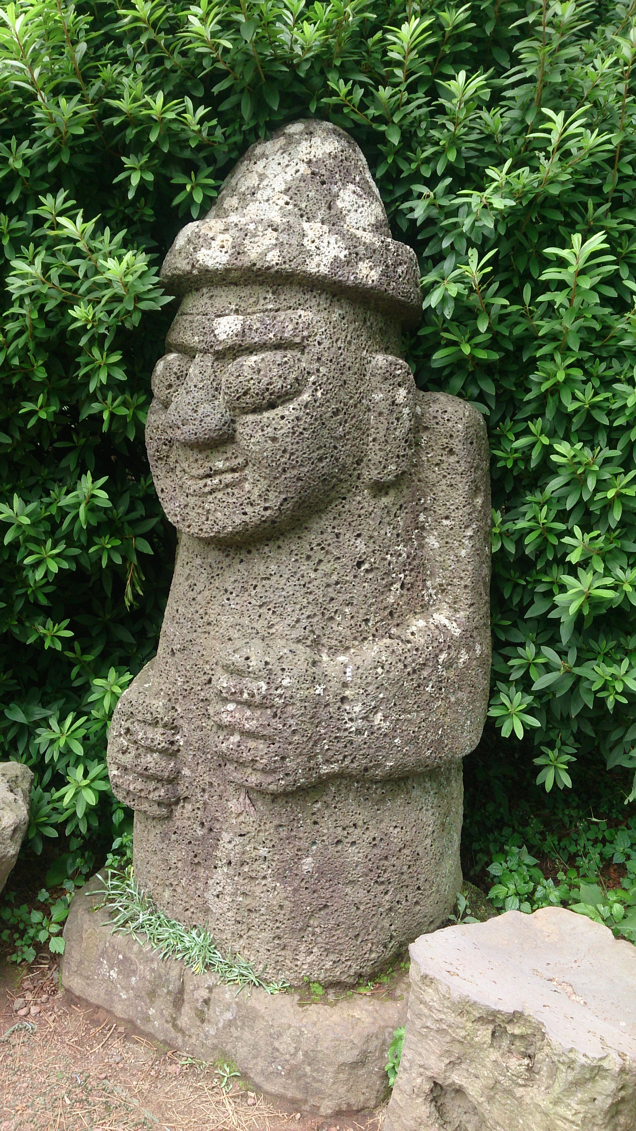 Dol hareubang. Stone man carved from lava rock in Jeju, South Korea